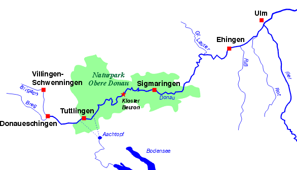 Danube between its wells and Ulm, including the karst system of the Aachtopf.